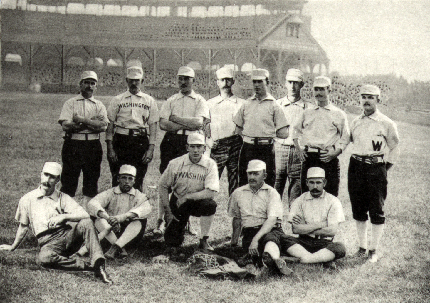 1888 Washington Nationals team photo